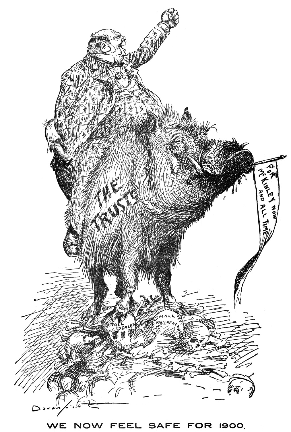 Political cartoon against the domination of trusts